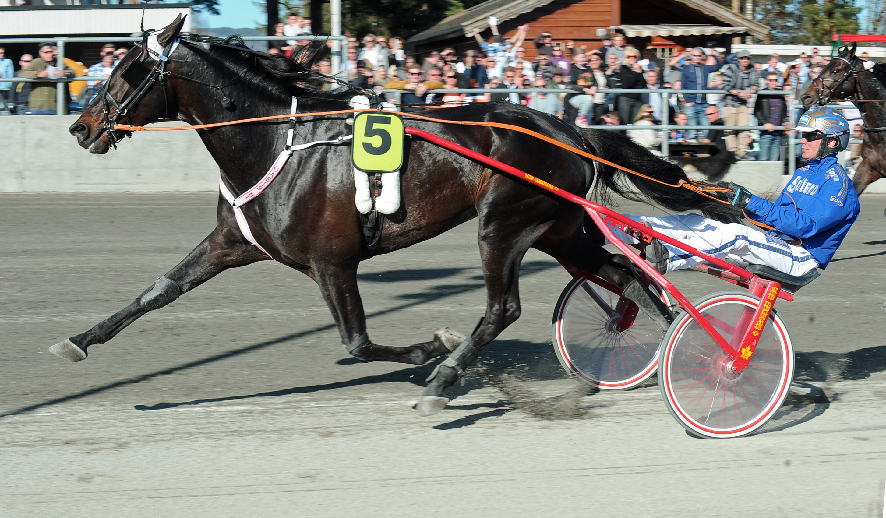 Foto : CK : Oasis Bi_Goop Björn mål